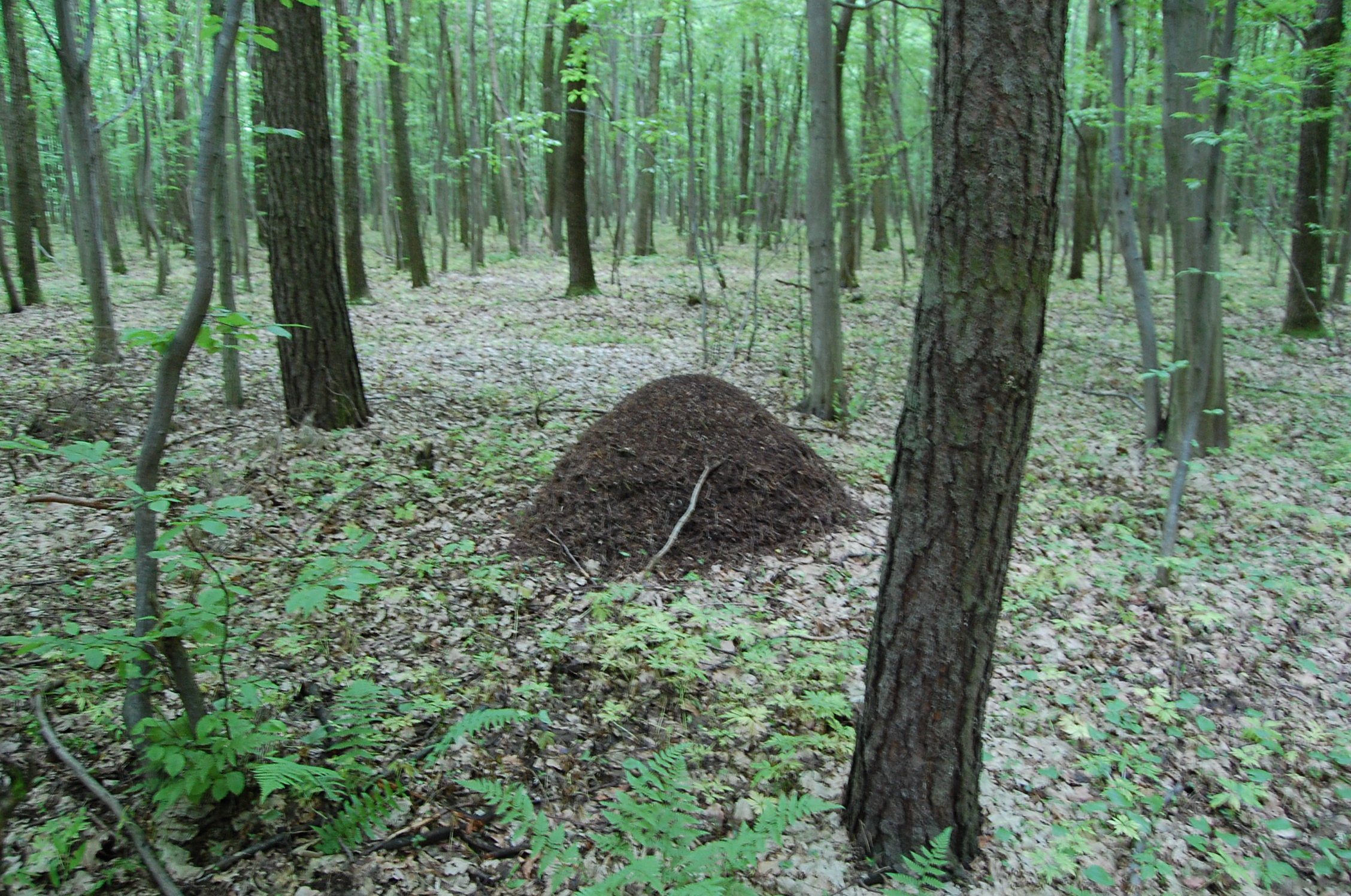 Forest in Radawiec